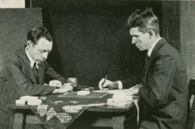 Hubert Pearce with the parapsychologist J. B. Rhine experimenting with Zener cards.